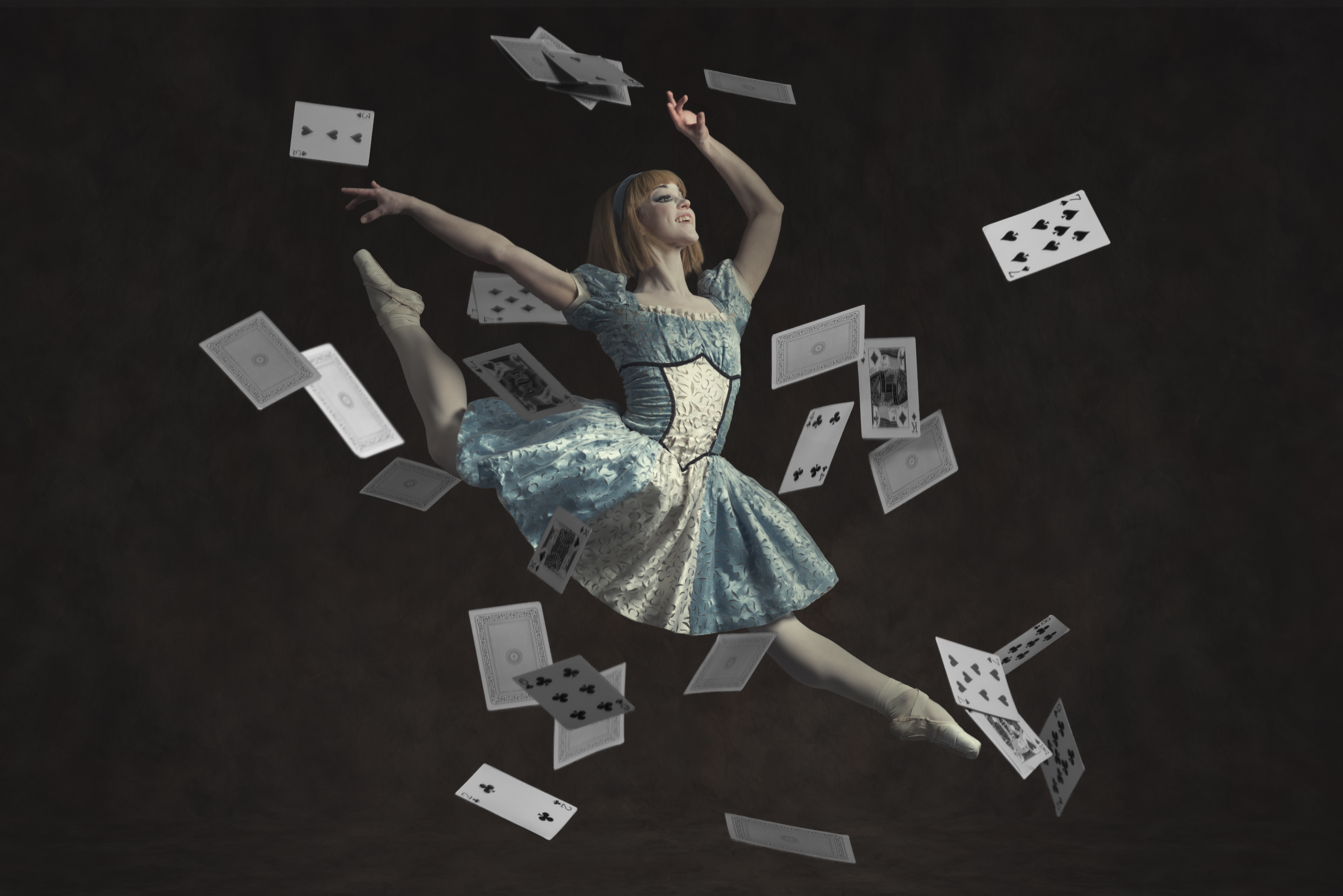 Dancer: Laura (Wolfe) Hunt. Photography: Kenny Johnson.